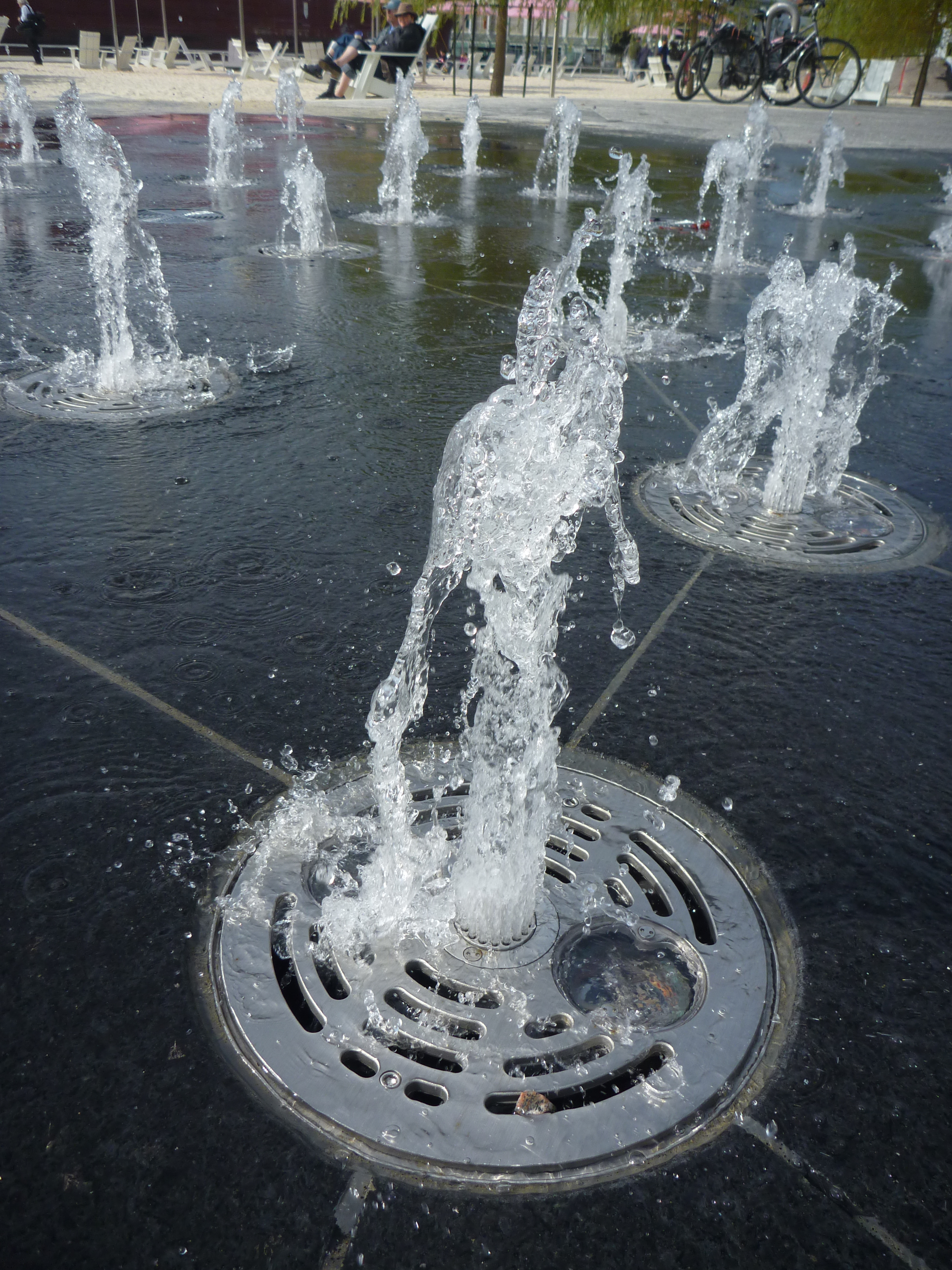 Aquatic play area, Sugar Beach, near Jarvis Street lakefront, Toronto, Ontario, Canada